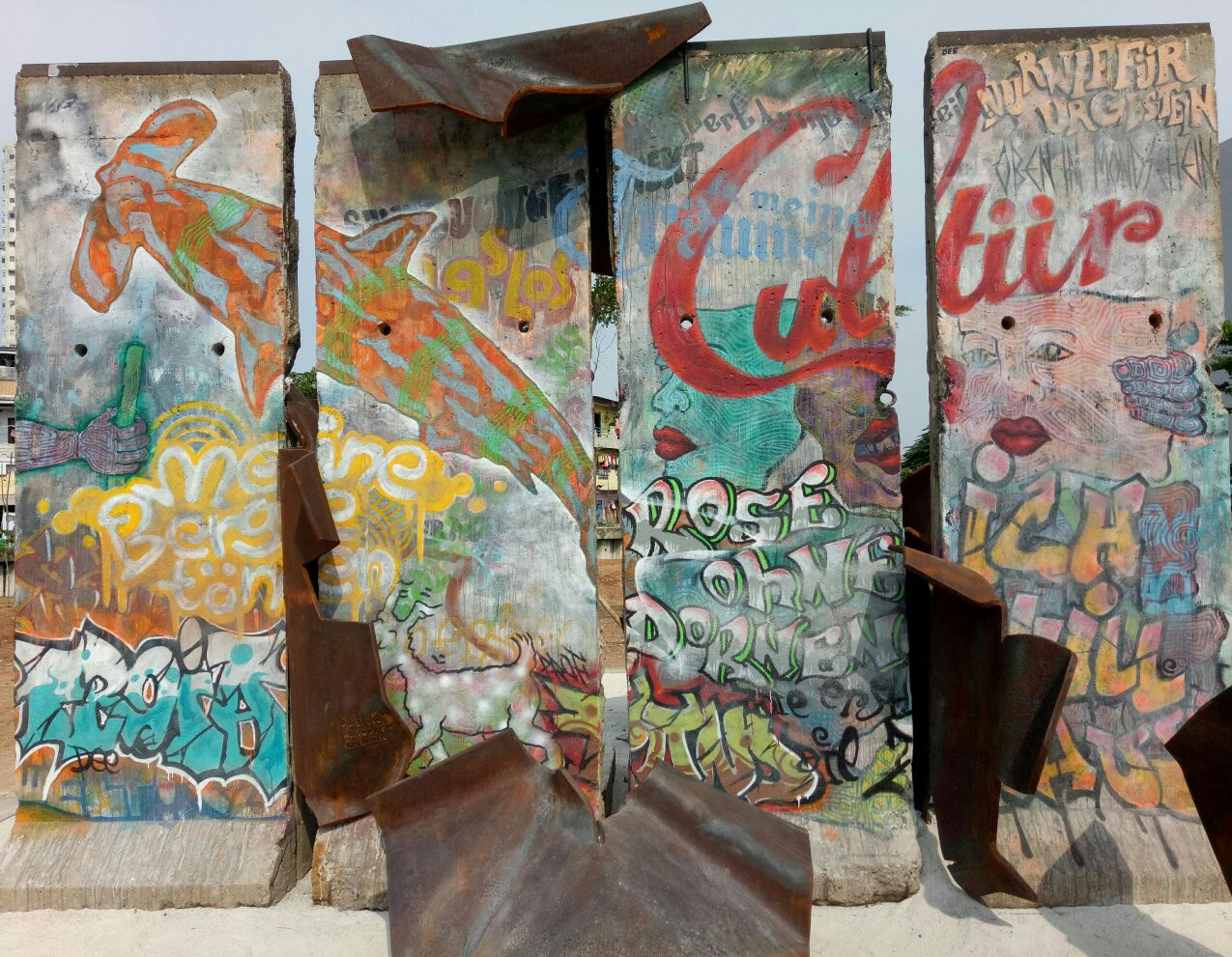 A section of four slabs of the Berlin Wall located in the Kalijodo Park, Jakarta, Indonesia